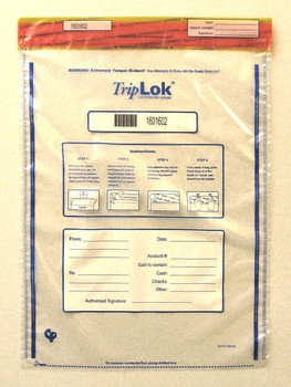 Tamper evident currency bag. Used at bank to store and count large amounts of currency. Has a seal that show if the bag has been tampered with.